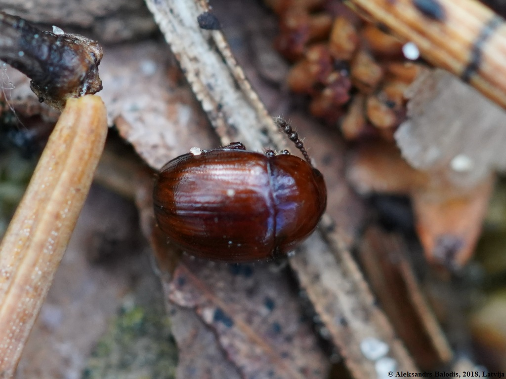 Leiodes cinnamomea